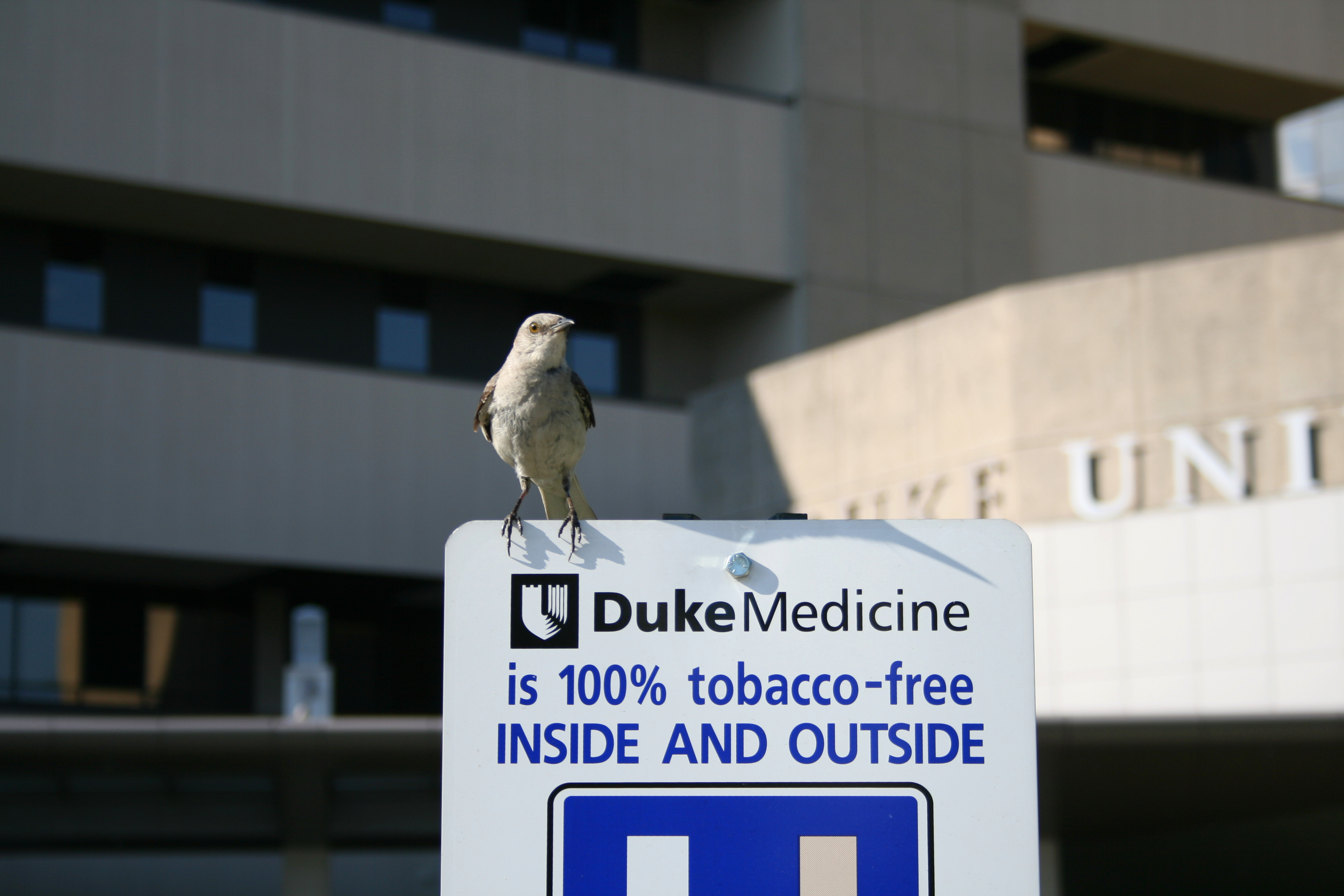 A Northern Mockingbird on top of a Duke University Hospital sign reading "Duke Medicine is 100% tobacco-free INSIDE AND OUTSIDE" in Durham, North Carolina.